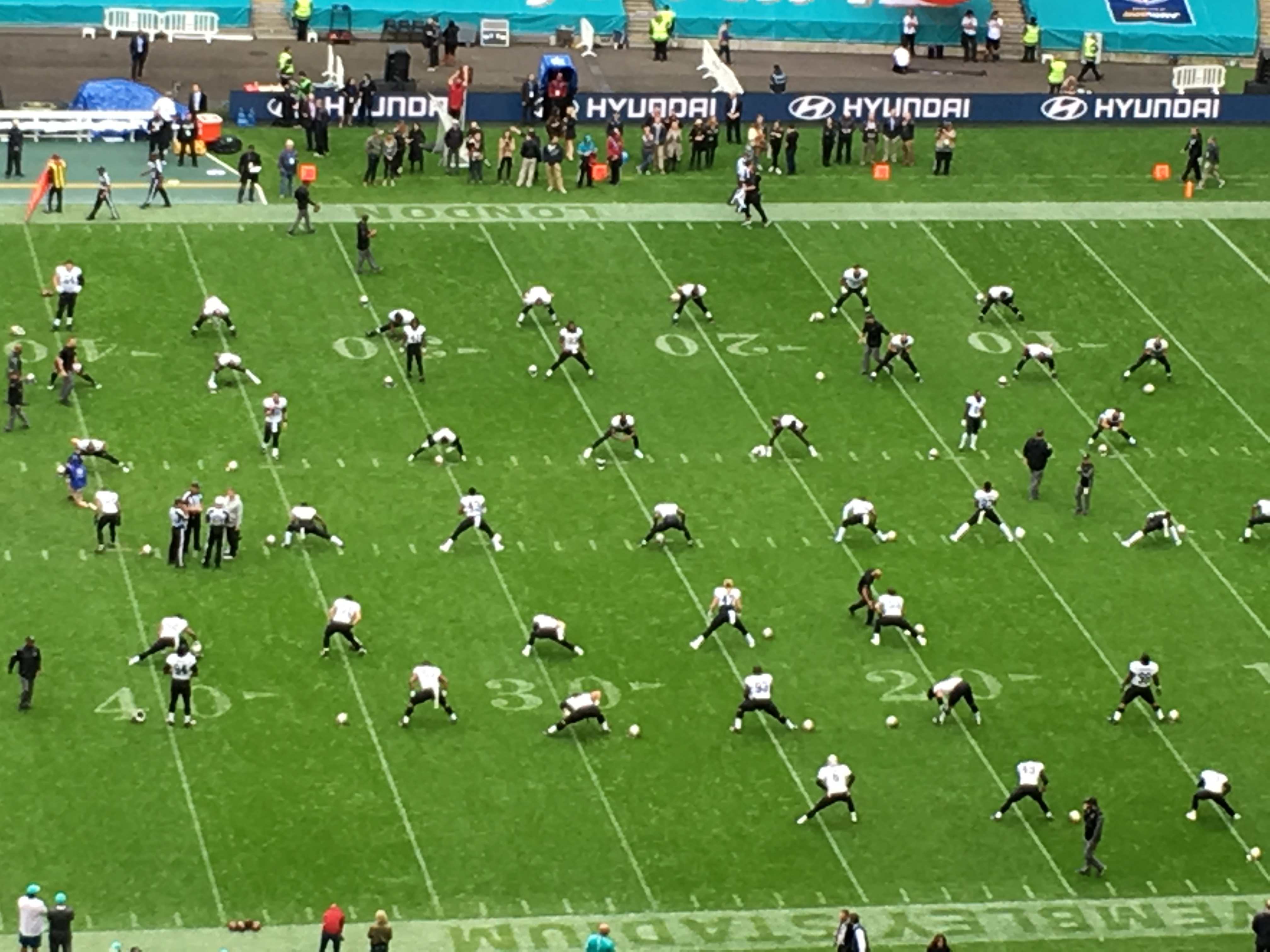 New Orleans Saints players warming up before the game vs. the Miami Dolphins in London in 2017